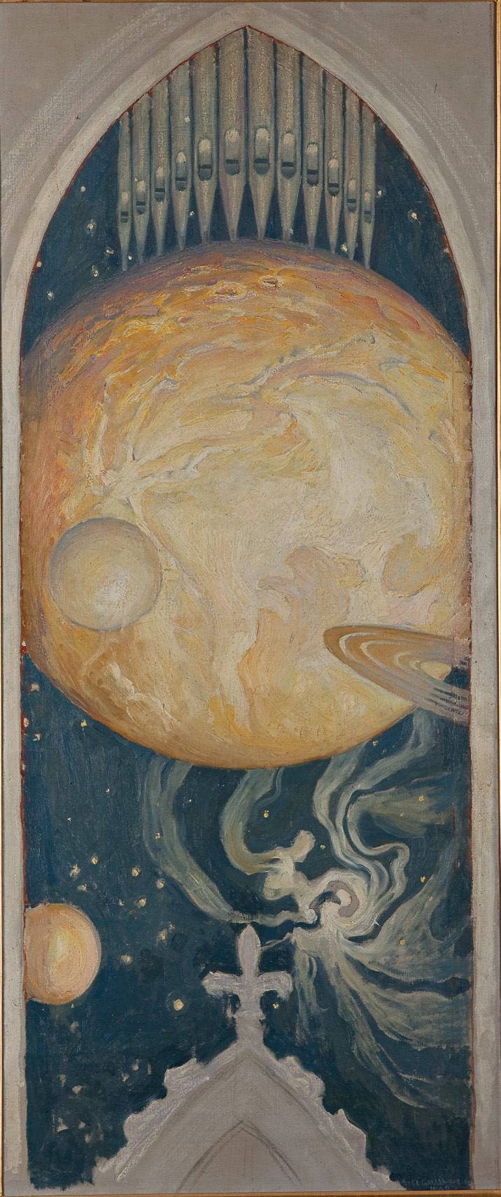 Sketch for the fresco at the Jusélius Mausoleum.